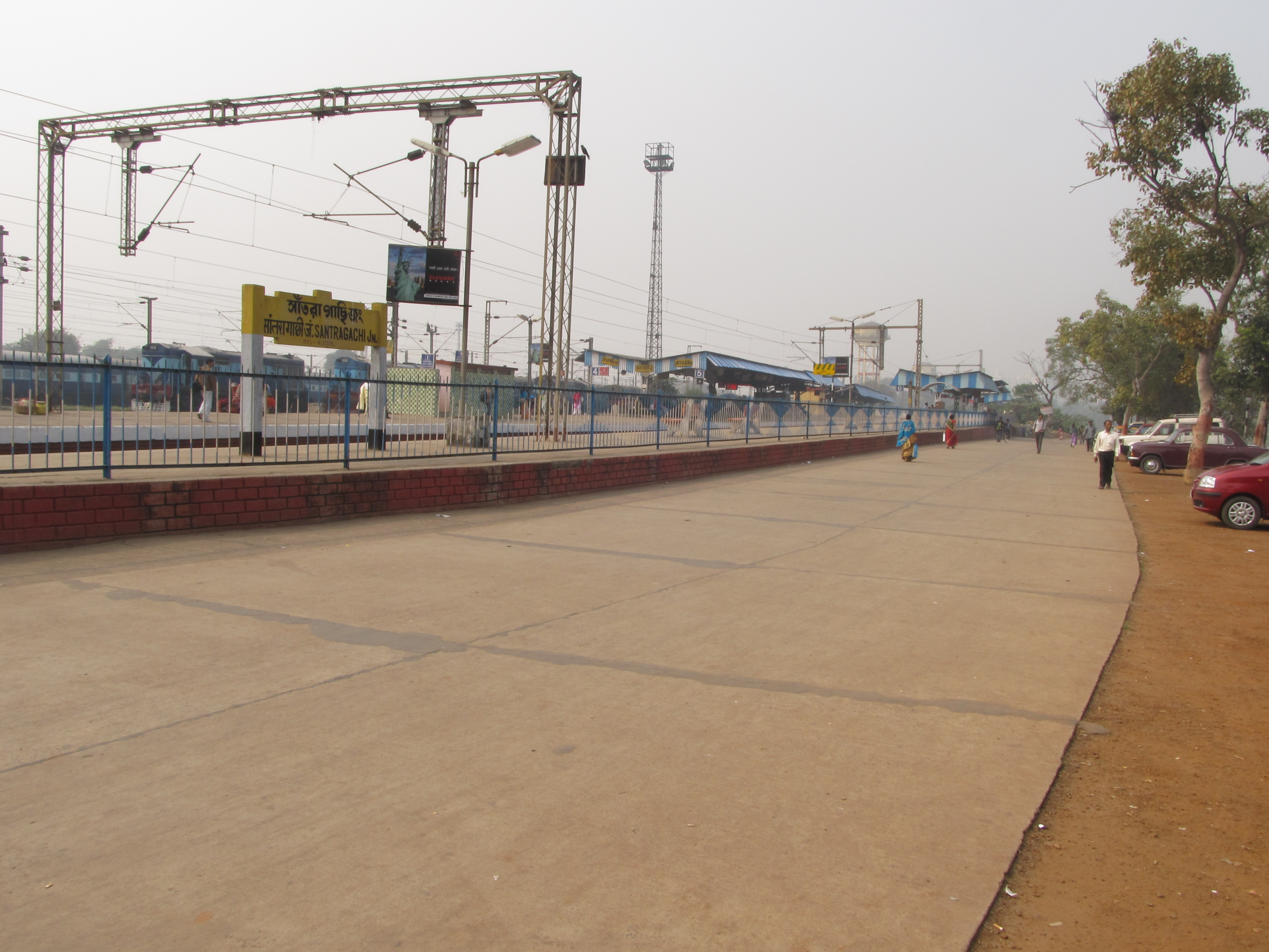 Photohgraphed at Santragachi.